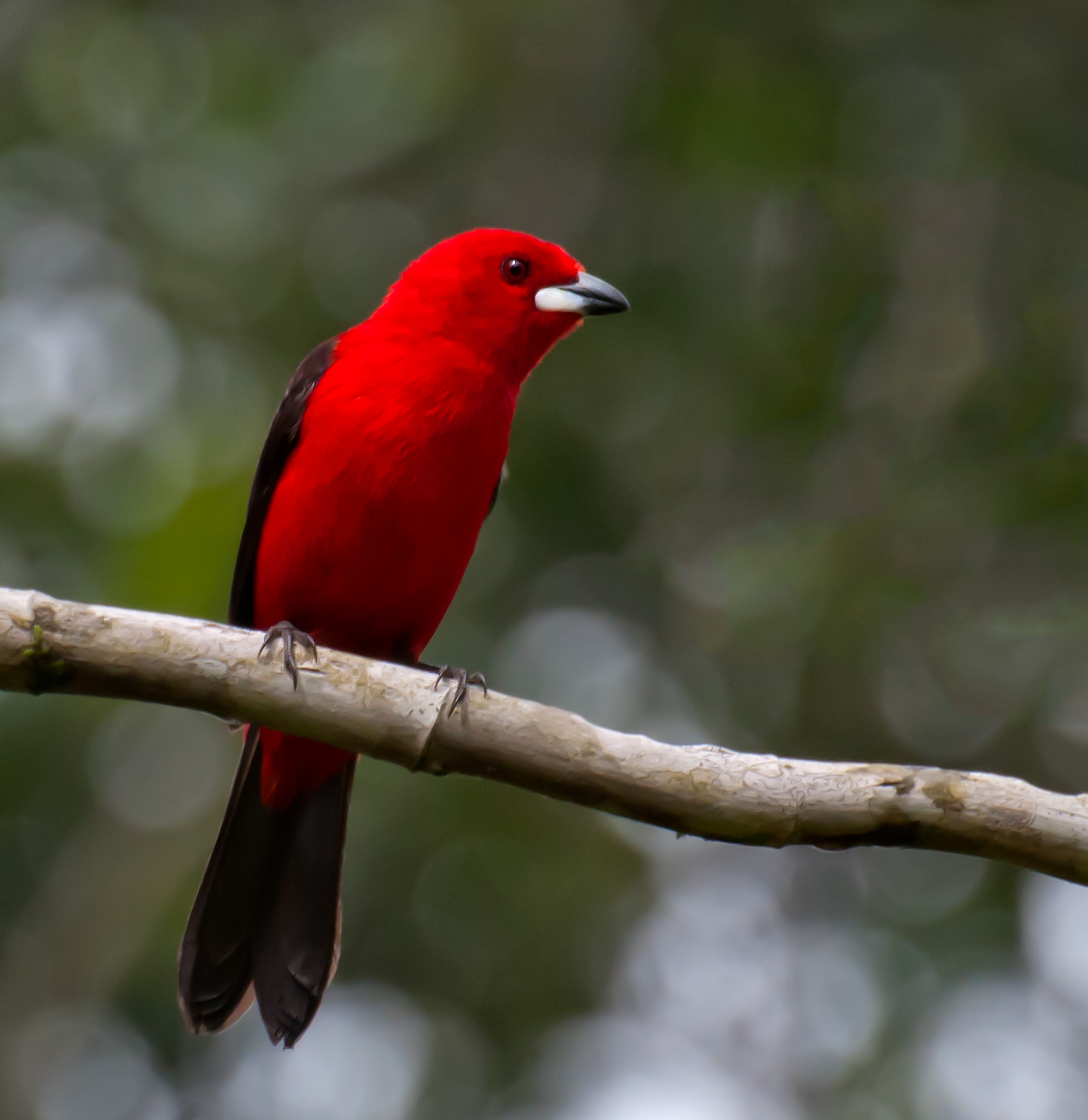 A male Brazilian Tanager in São Paulo Bagre, Cananeia, São Paulo, Brazil.